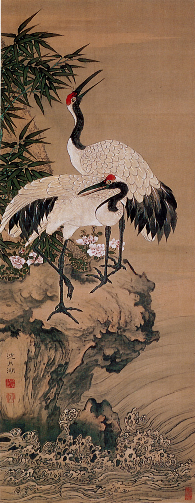 Ōtomo Gekko,A Pair of Cranes.A hanging scroll,Middle Edo period,Kobe City Museum